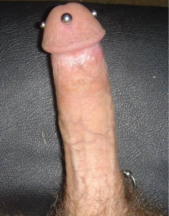 A magic cross piercing, both an Ampallang and a Apadravya. Scrotal piercing unrelated.